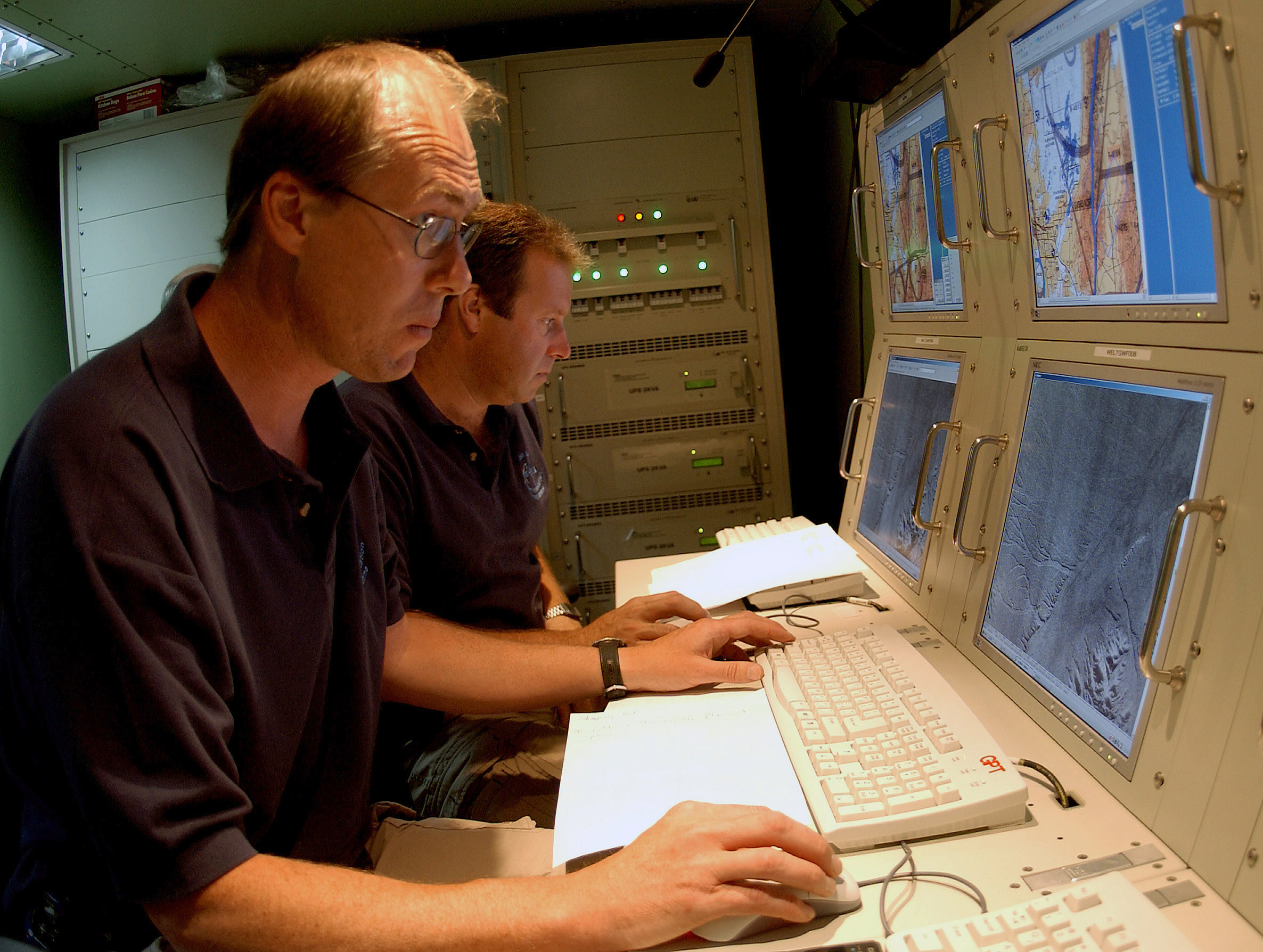 The Joint Unmanned Aerial Vehicle (UAV) Experiment Program consists of British and Israeli contractors working together controlling the UAV for experimental purposes during a Combat Search and Rescue (CSAR) training exercise at Fallon Naval Air Station (NAS), Nevada (NV), during exercise DESERT RESCUE XI. Here two British contractors view a low-resolution strip map, which covers a large area provided by the electrical optical and infrared camera, installed in the UAV during a surveillance and reconnaissance mission. The exercise is a joint service Combat Search and Rescue (CSAR) training exercise hosted by the Naval Strike and Warfare Center, designed to simulate downed aircrews, enabling CSAR related missions to experiment with new techniques in realistic scenarios. Location: NAVAL AIR STATION, FALLON, NEVADA (NV) UNITED STATES OF AMERICA (USA)